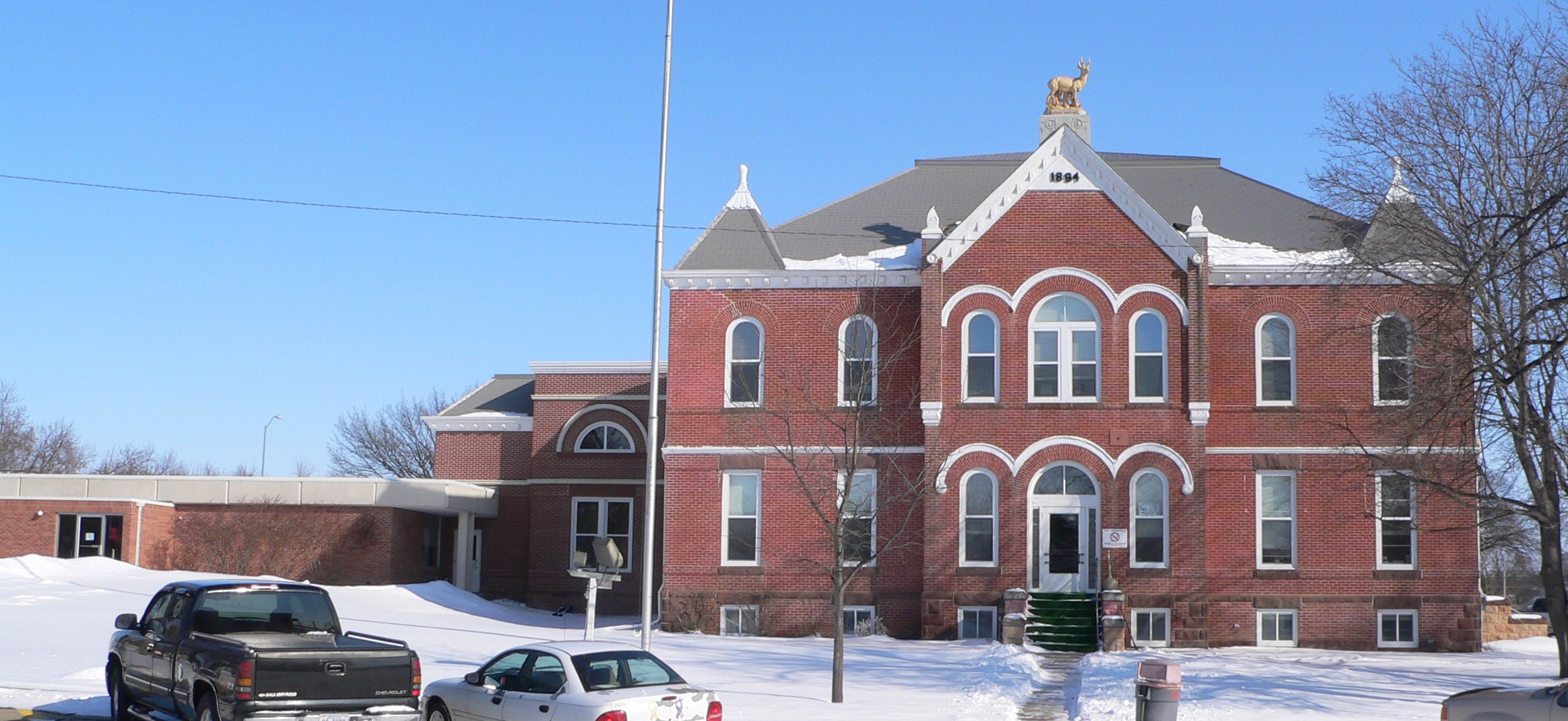 Antelope County Courthouse in Neligh, Nebraska; seen from the west. The building was designed in Romanesque Revival style and built in 1894. The portion to the left of the flagpole is a more recent addition. The sculpted quadruped atop the roof above the west entrance is a pronghorn, the county's namesake. The building is listed in the National Register of Historic Places.